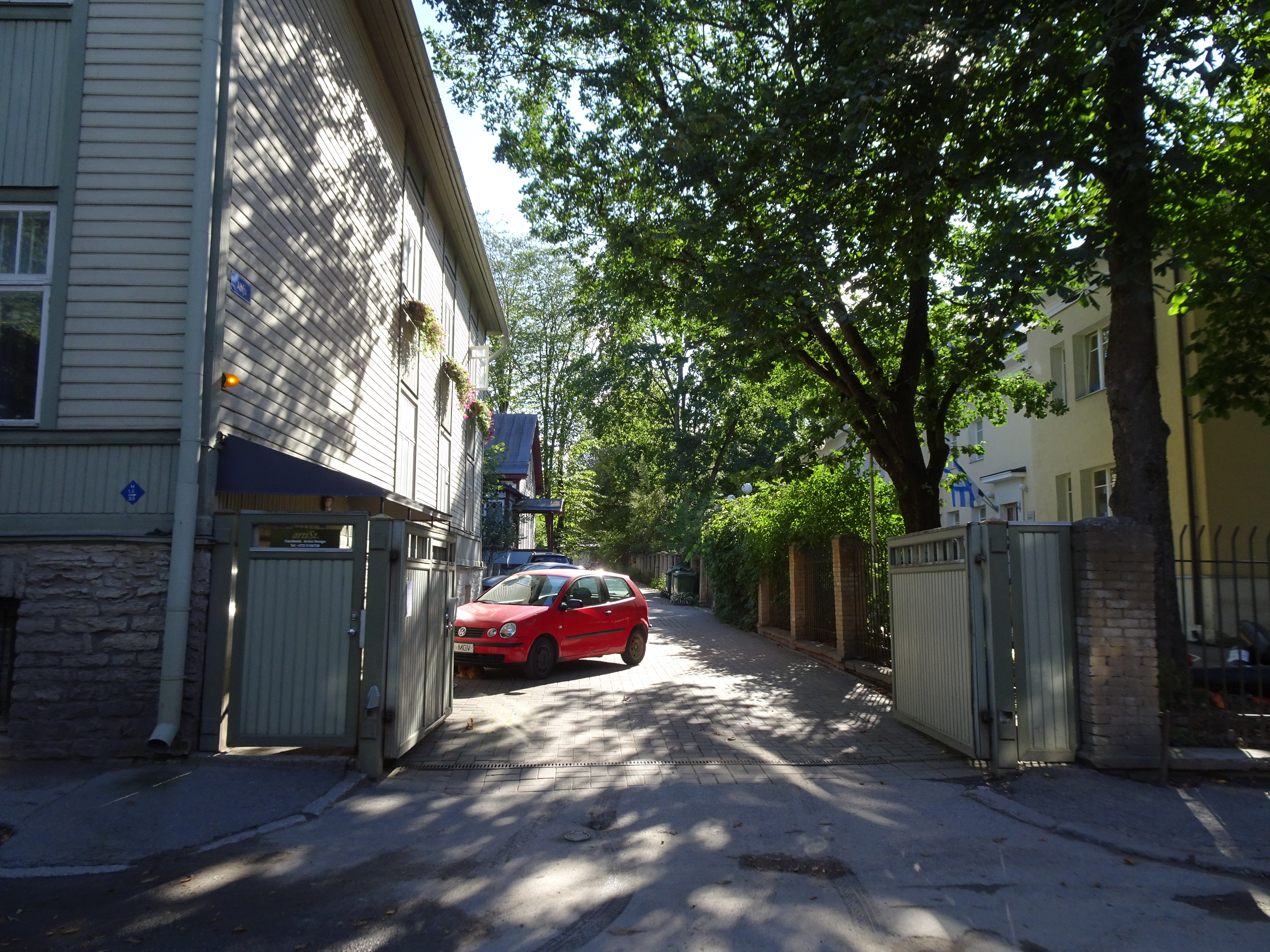 View from Peeter Süda Street to Ahju Street in Tallinn, Estonia